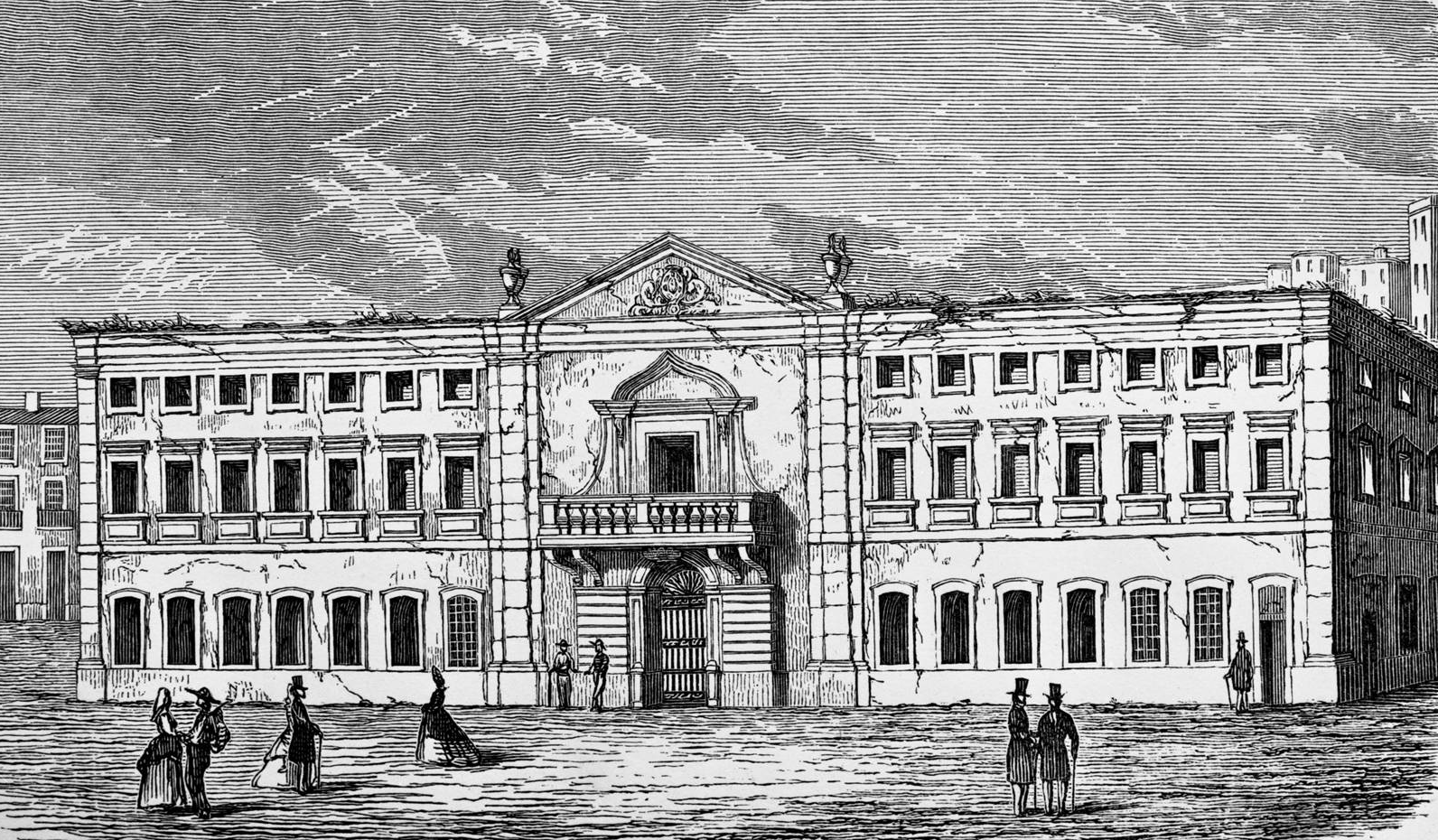 Drawing of the Inquisition Palace (Estaus Palace) in the Rossio square in Lisbon, Portugal.